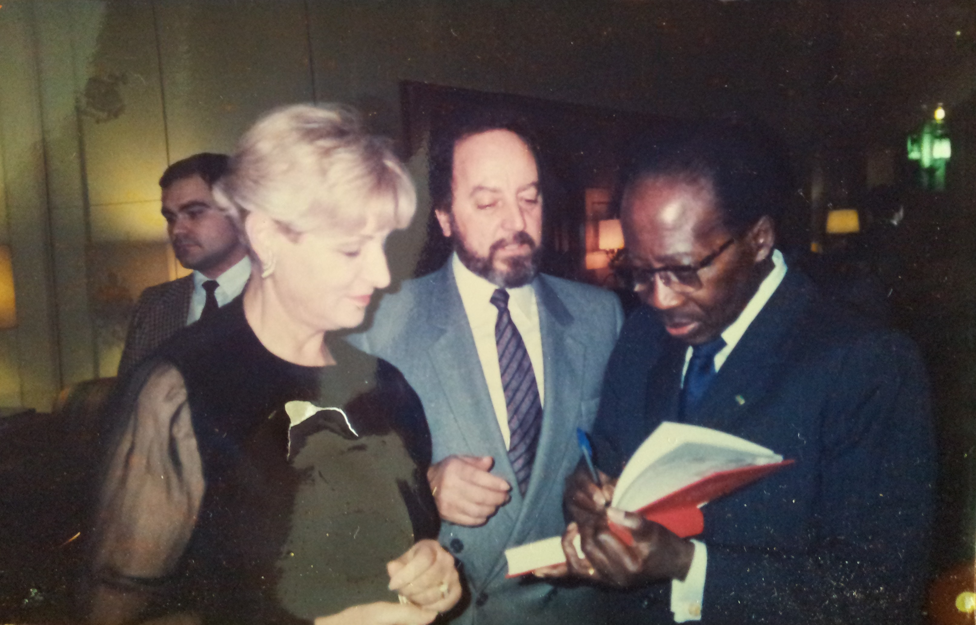 Leopold Sedar Senghor signing a copy of his "Poemes", Universita degli Studi di Genova (Jan. 18, 1988).